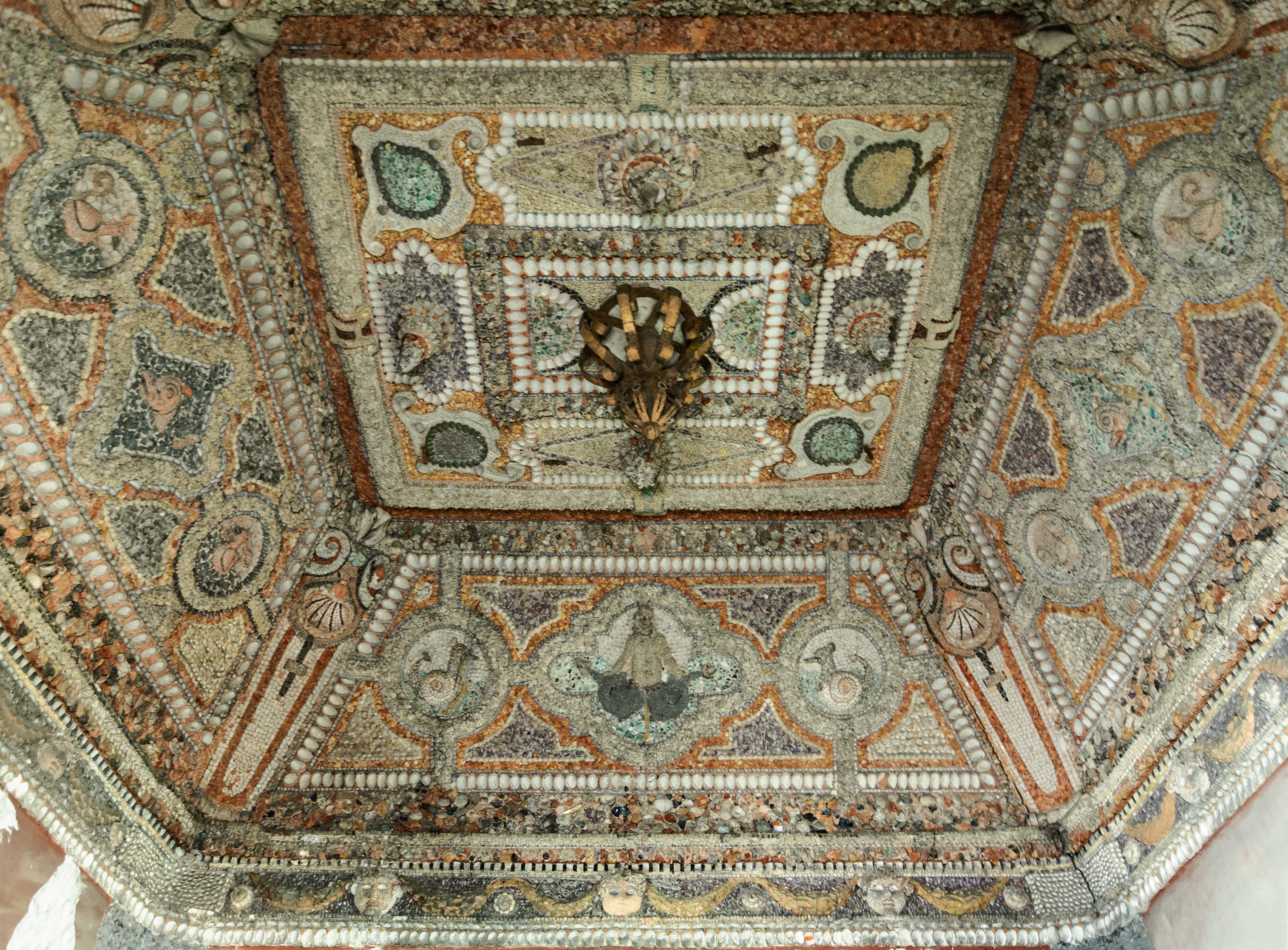 Ceiling of the nymphaeum of the Saint-Sulpice Seminary in Issy-les-Moulineaux, Hauts-de-Seine, France. This nymphaeum of Italian inspiration was built between 1609 and 1615. .